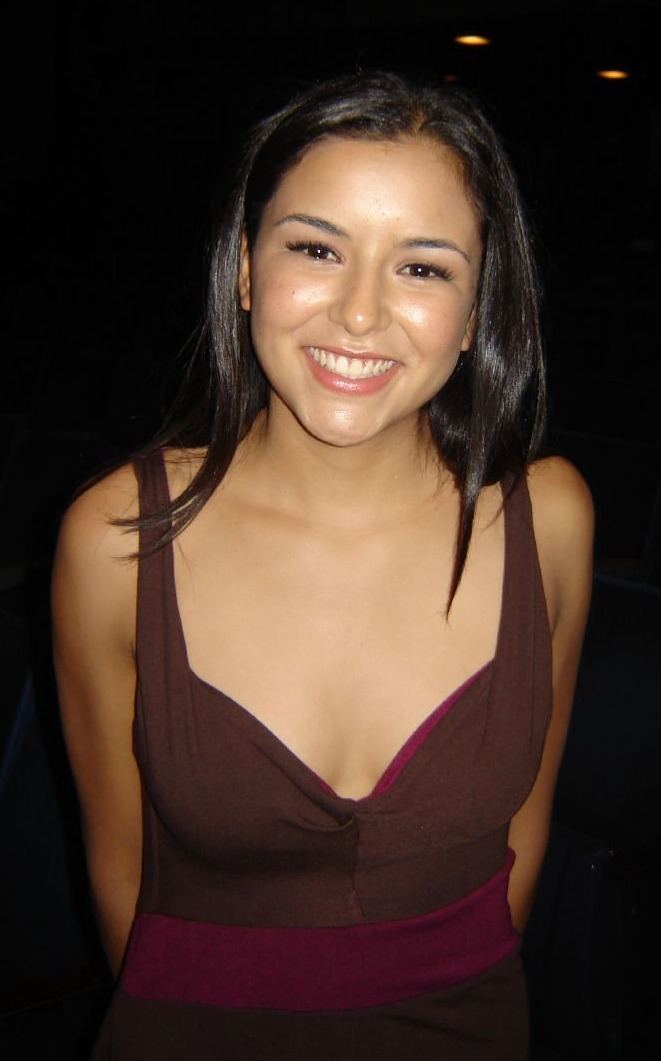 Emily Rios from Quincenera